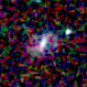 Galaxy NGC 107